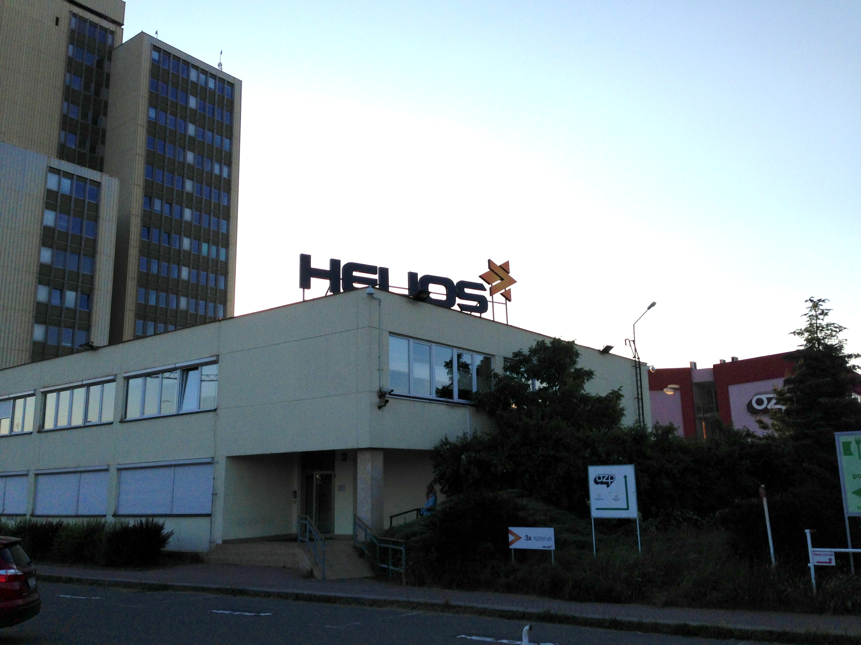 Asseco Solutions central in Prague, Czech Republic.